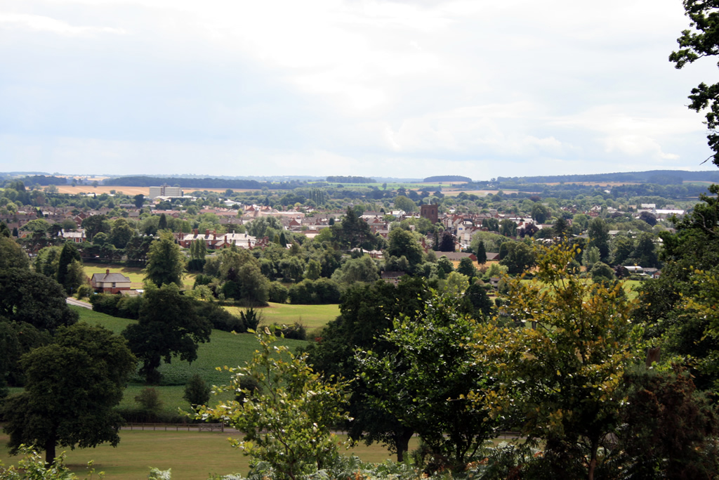 Newport, Shropshire from Cheeny hill